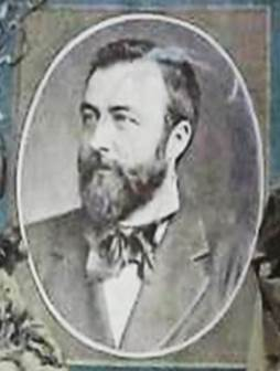 Spanish painter Rafael Monleón (1843-1900) from a biography published by José M. Duazcal